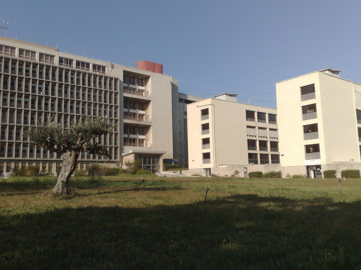 The Histadrut Building, "Beit Havad Hapoel", Arlozorov Street, Tel Aviv-Yaffo